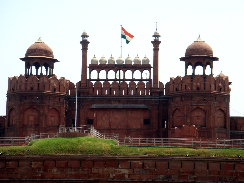 Picture taken by Kaiser Tufail during visit to Delhi, 29-4-08